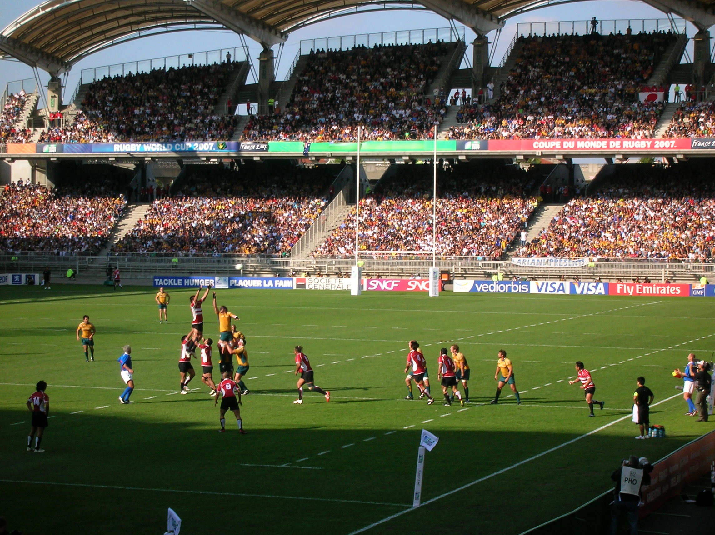 Line-out during pool match between Australia (yellow) and Japan (red) during the 2007 Rugby World Cup. Match played in Lyon's stadium Gerland (France). Result was 91-3 for Australia.